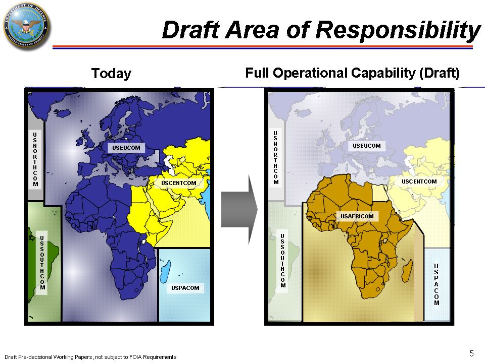 Partial world map showing the creation of a new United States Africa Command (USAFRICOM) by reassigning parts of the existing United States European Command (USEUCOM), United States Central Command (USCENTCOM) and United States Pacific Command (USPACOM.